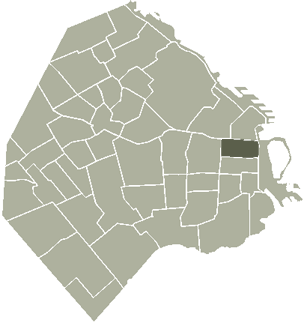 Location of the San Nicolás Neighbourhood in Buenos Aires City, Argentina